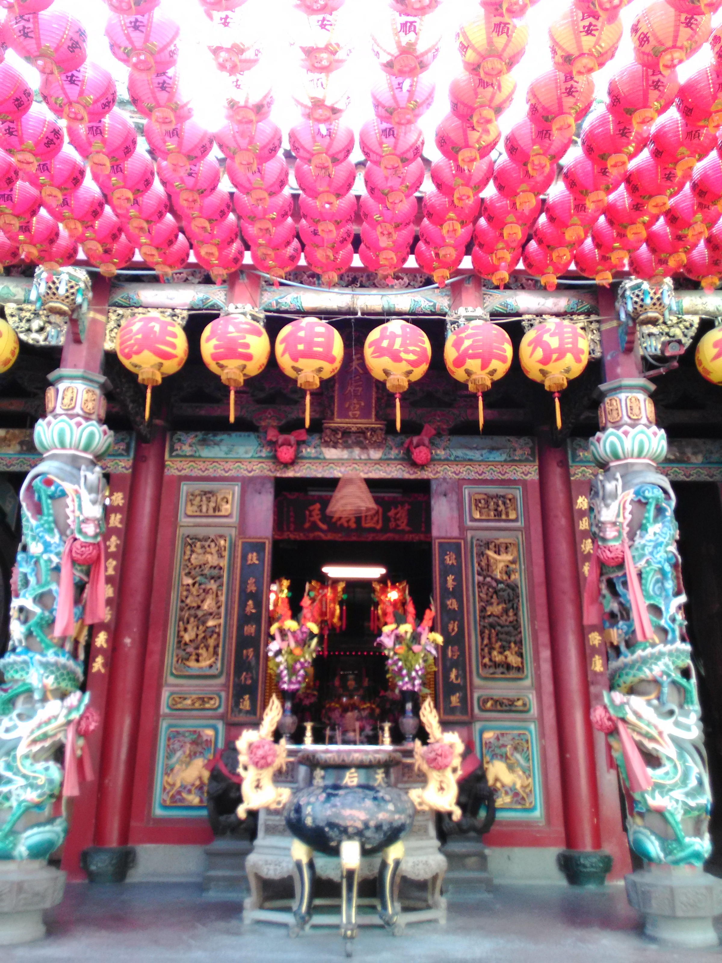 旗津天后宮